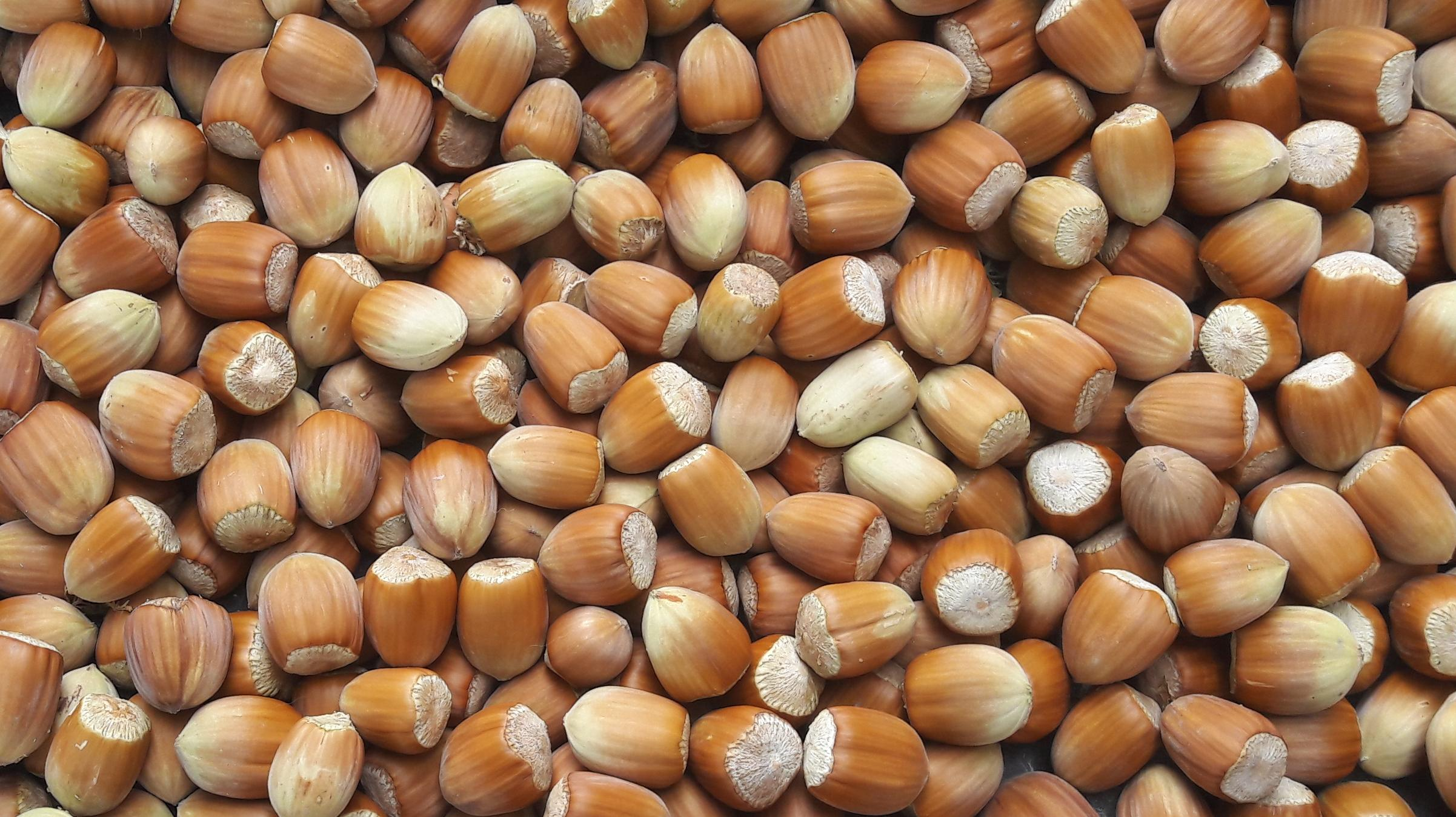 Many hazelnuts.